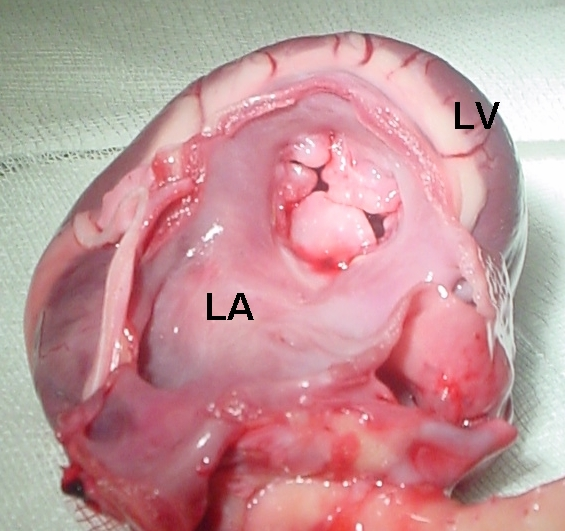 Chronic mitral valve insufficiency in a poodle dog, caused by a myxomatous valvular degeneration. LA - left atrium (partly resected), LV - left ventricle of the heart. Note the thickened, incongruent leaflets of the mitral valve